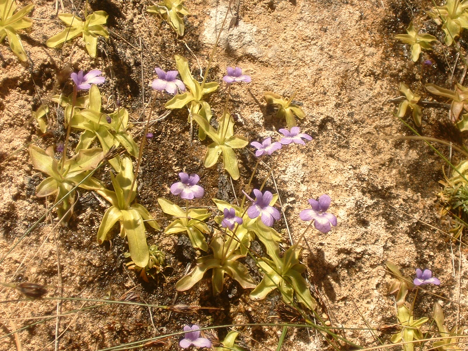 Pinguicula grandiflora (longifolia?) subsp. dertosensis By Philipp Reinhold, 2004.